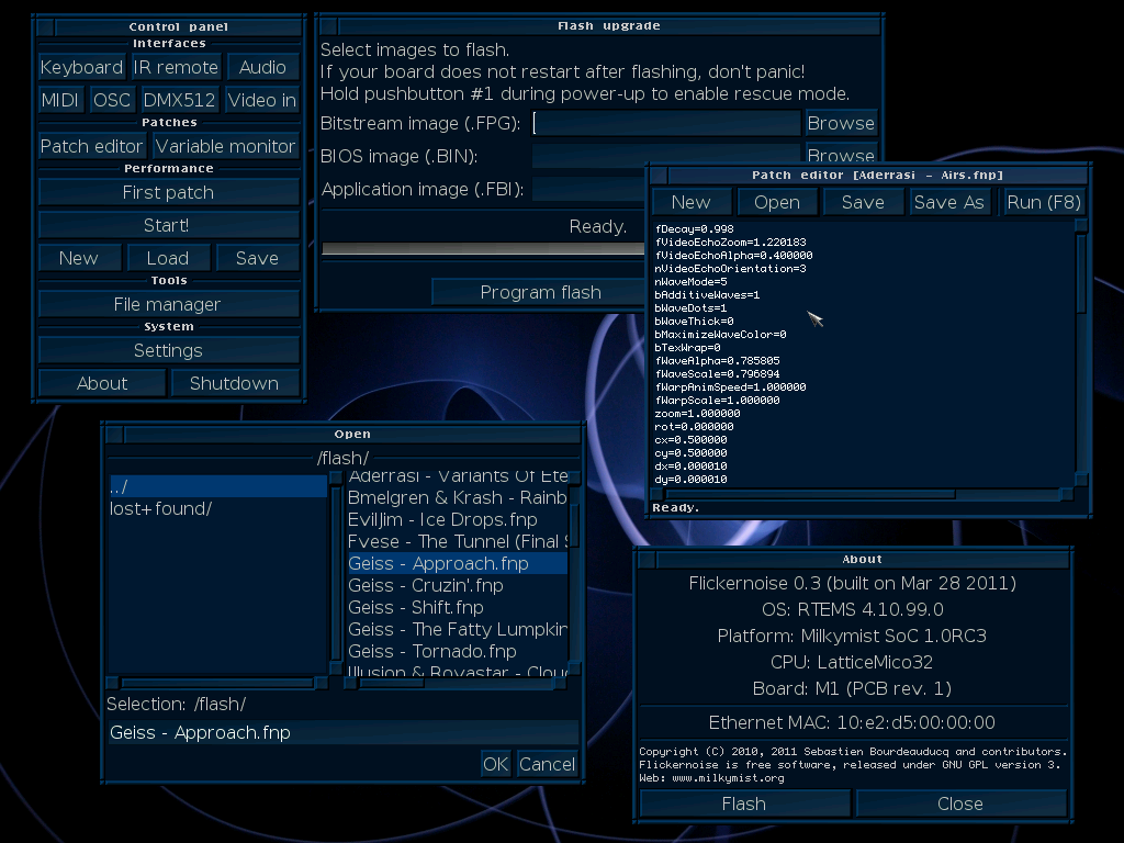 Flickernoise-darkblue